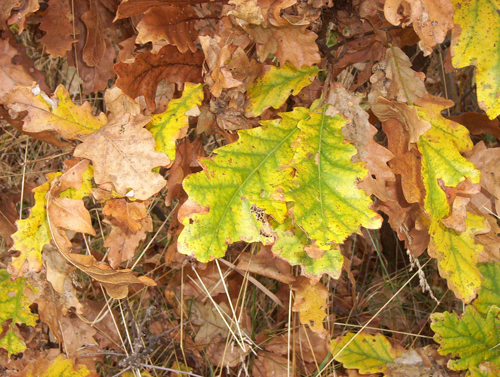 Turkey Oak Quercus cerris leaves.